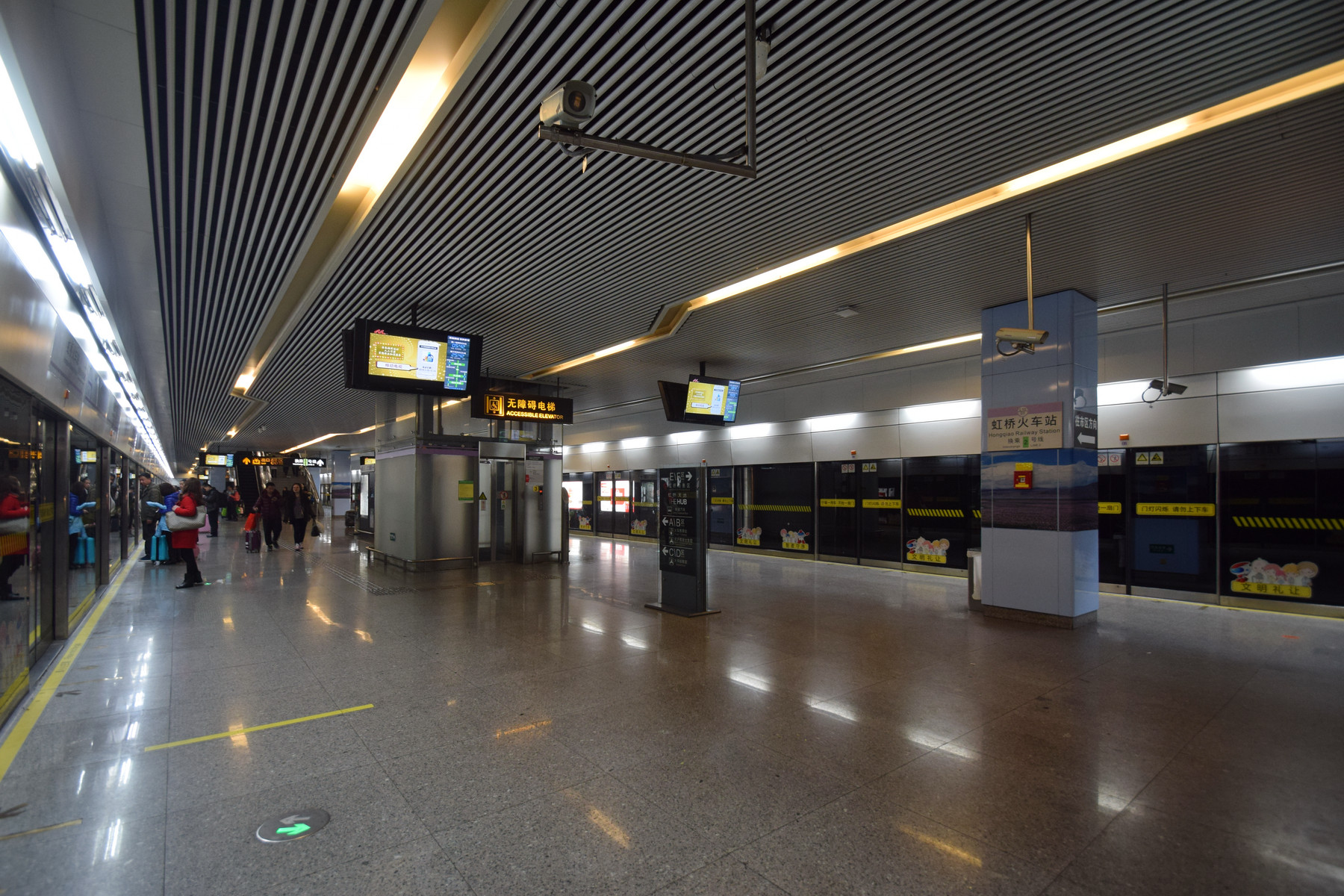 Line 10 Platform of Hongqiao Railway Station Station, Shanghai Metro